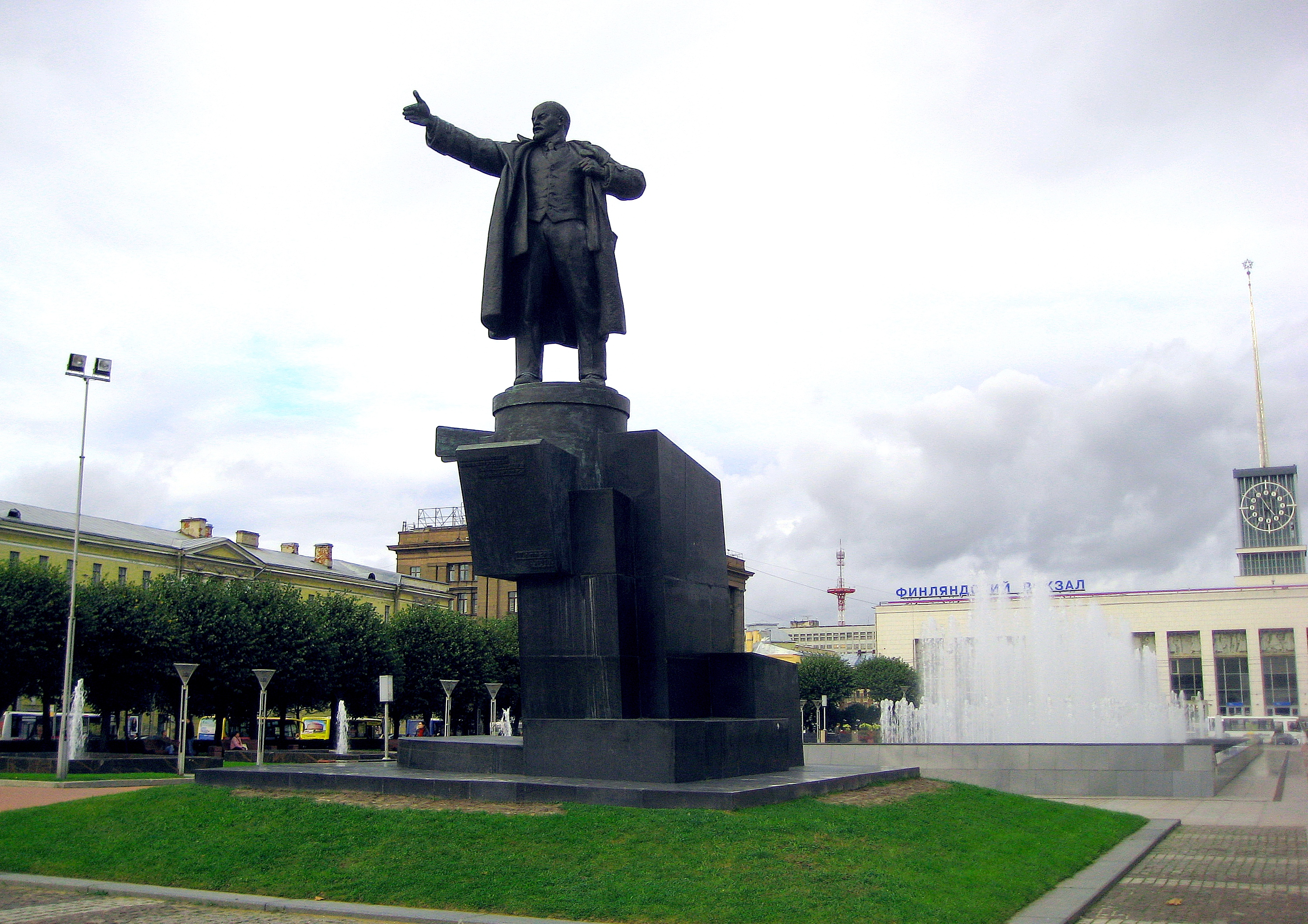 Lenin Square, Kalininsky District, St. Petersburg.